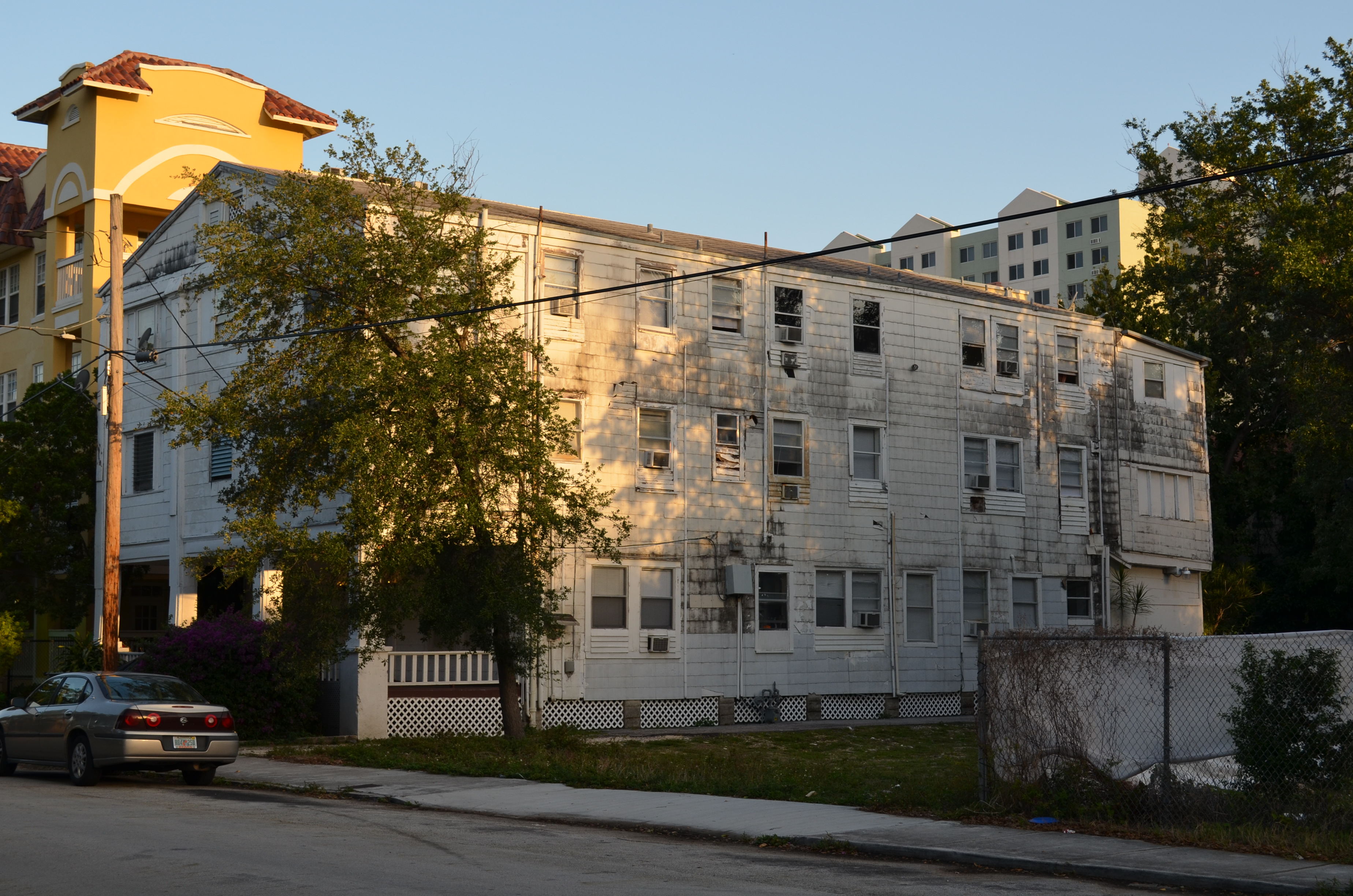 Shanty three story wooden frame house in Miami. Apparently predates 1926 Miami hurricane along with other stuff around Lummus Park. This has simply got to be one of the only multi-story wooden houses in coastal South Florida, all of Miami, all of the county. This is been through about five fairly close hurricanes, with 1926 (Great Miami?) being fairly direct.